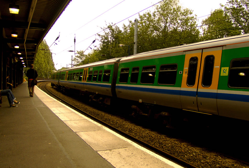 Photograph of University Station, Birmingham, UK from Platform 1. A 323 electric multiple unit stands at Platform 2.